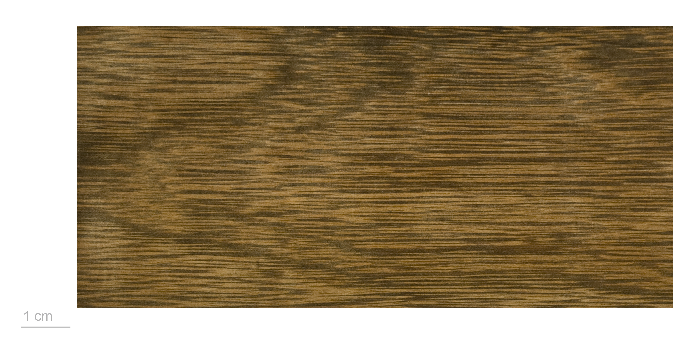 ? , wood